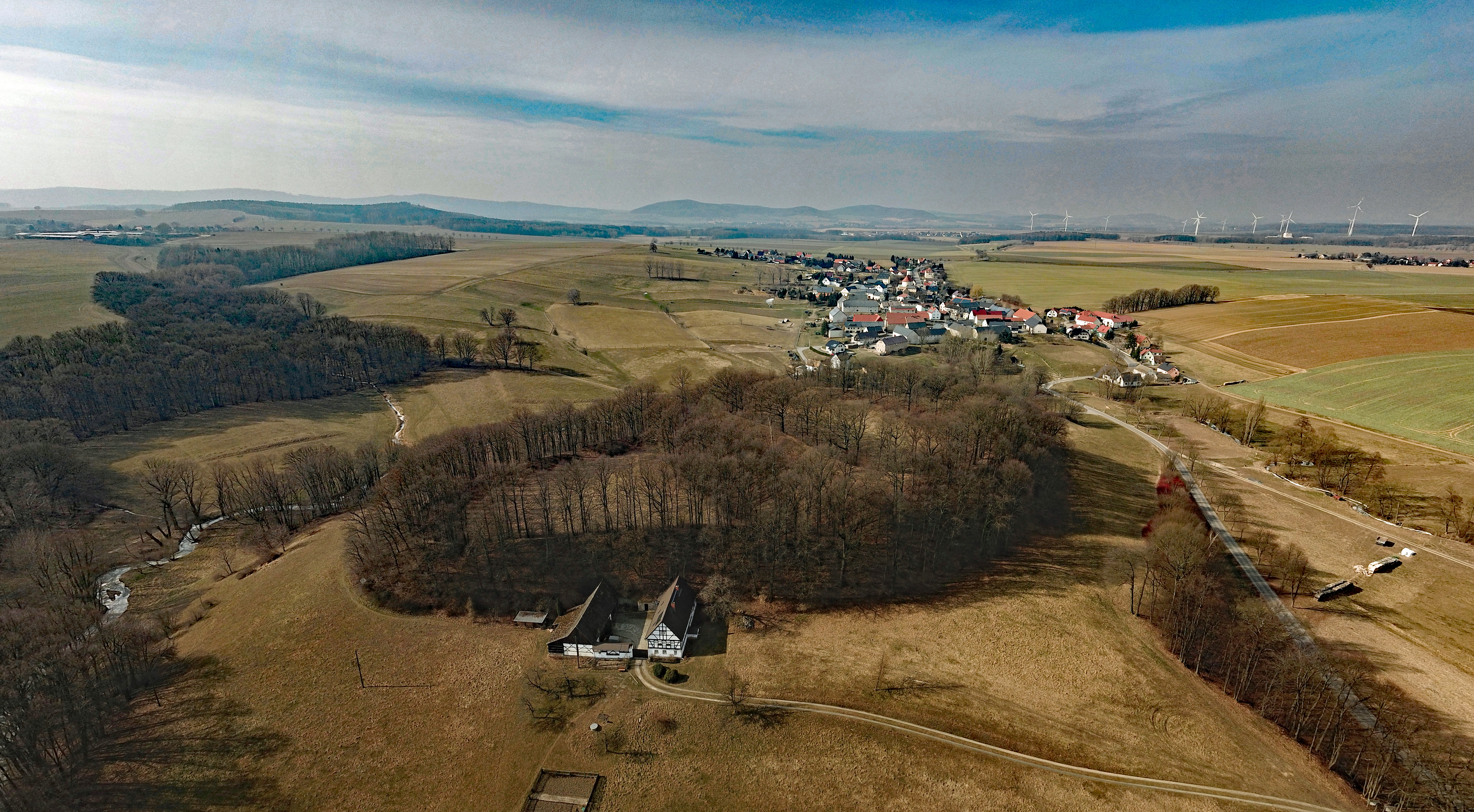 Ostroer Schanze & Ostro (Panschwitz-Kuckau, Saxony, Germany) Hornjoserbsce: Powětrowy wobraz Wotrowskeho hrodźišća z Wotrowom w pozadku.